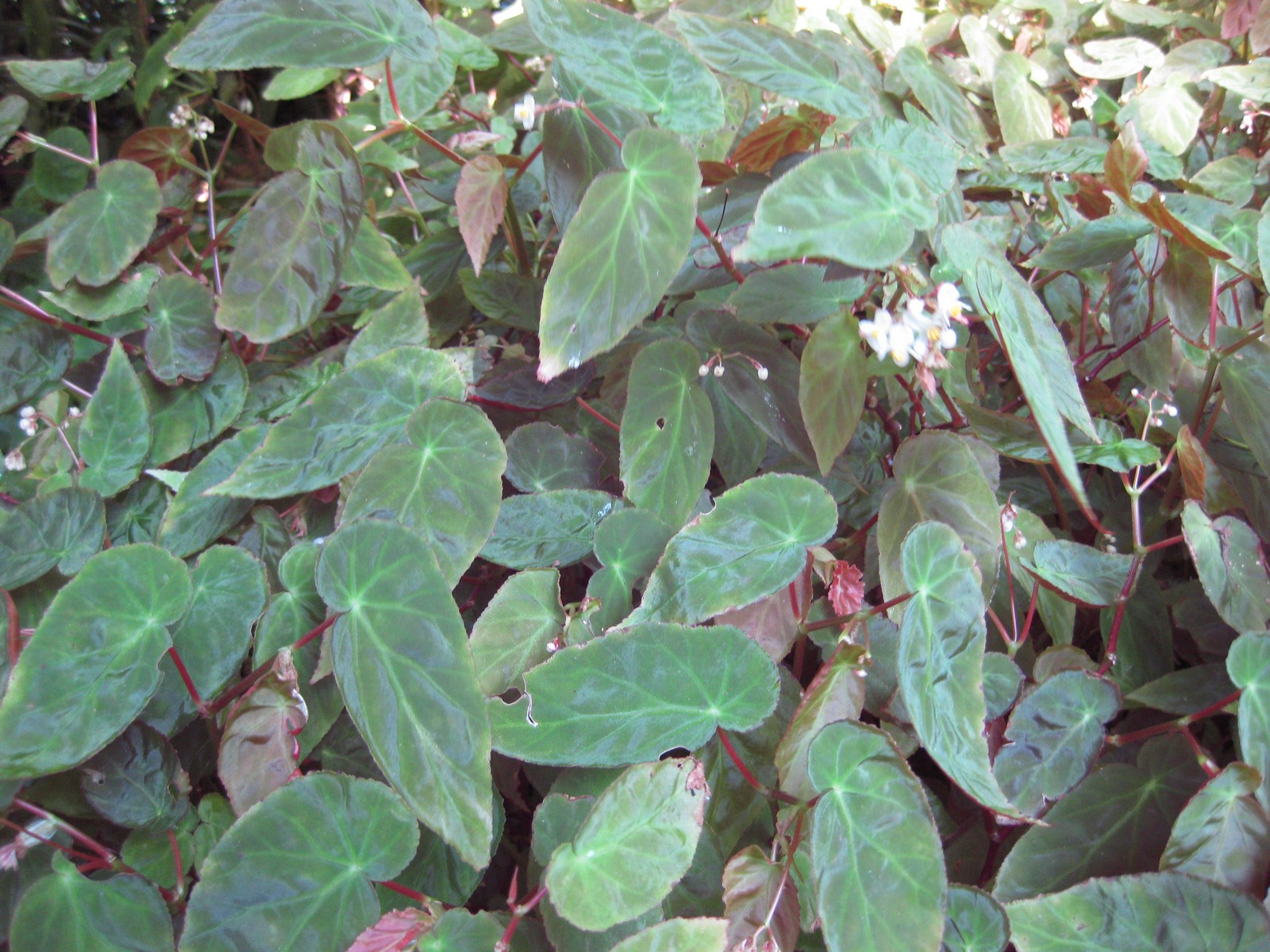 Begonia polyantha Sumatra. Photographed at the Royal Botanic Gardens Sydney (Australia) in December